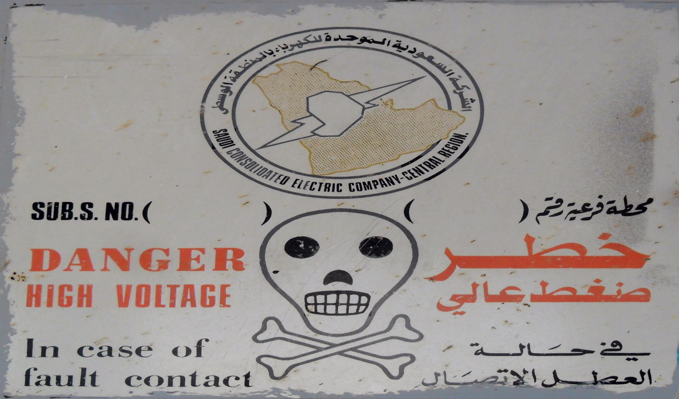 Panel information in both Arabic and English.